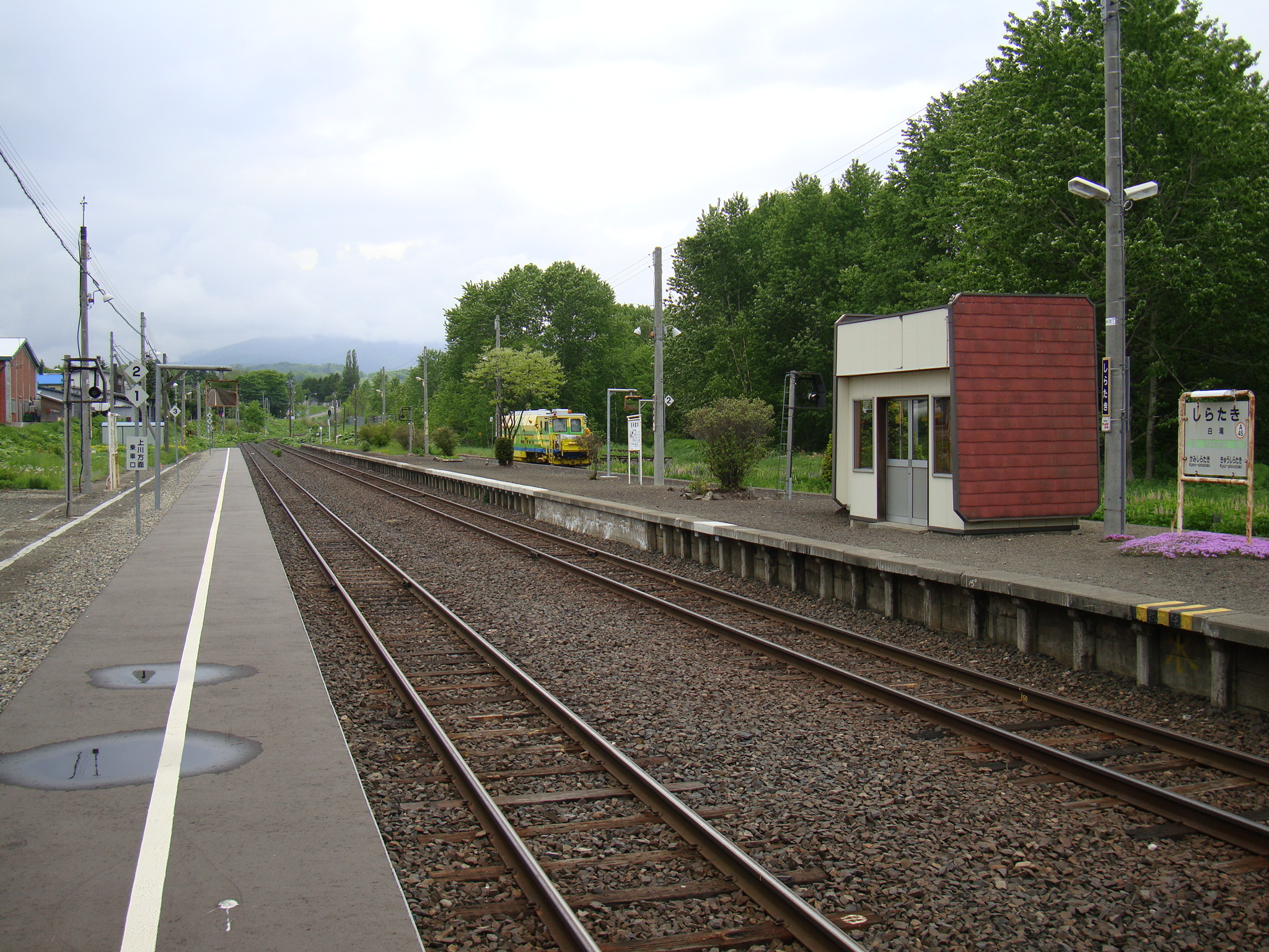 Shirataki Station